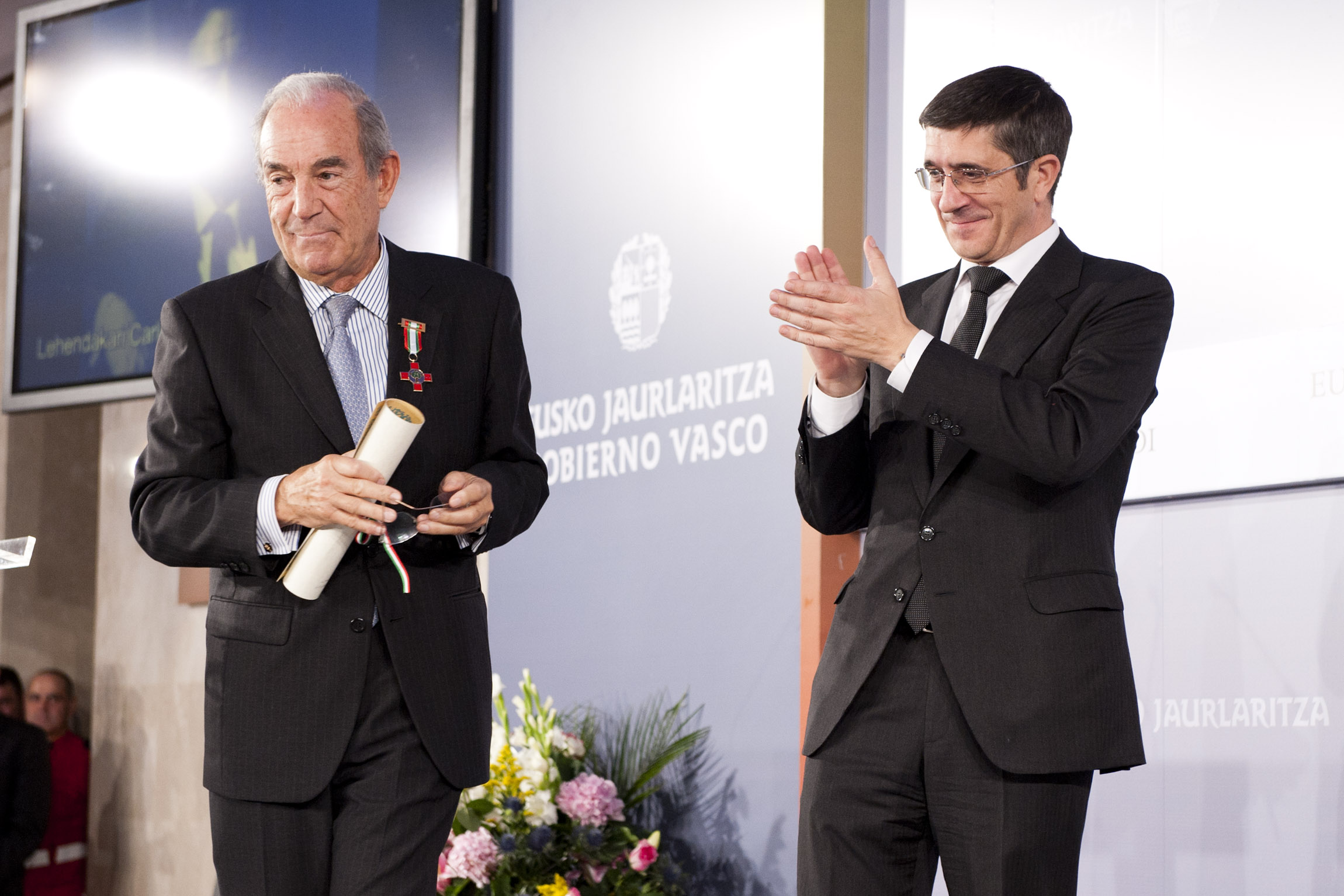 Former lehendakari Carlos Garaikotexea after being given the Cross of the Gernika Tree, and Patxi López (lehendakari at the time) applauding.